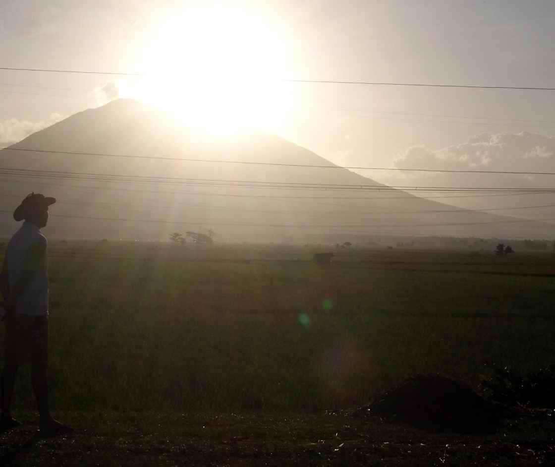 Mount Isarog in the early morning by penny calara